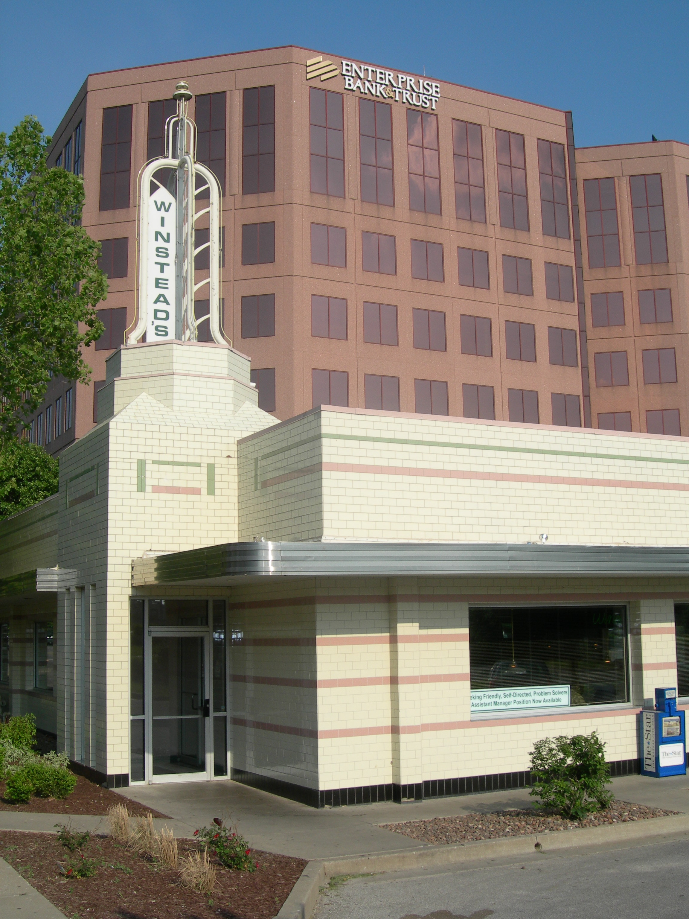 The exterior of the main entrance to Winstead's on the Country Club Plaza in Kansas City, MO.